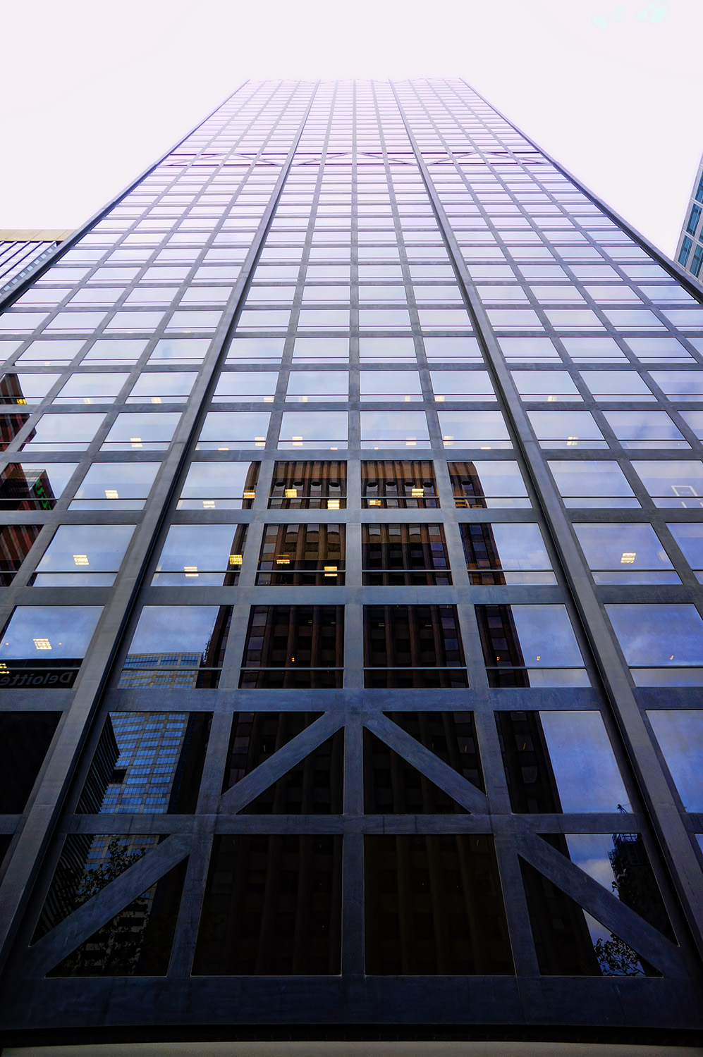 Building facade front on.